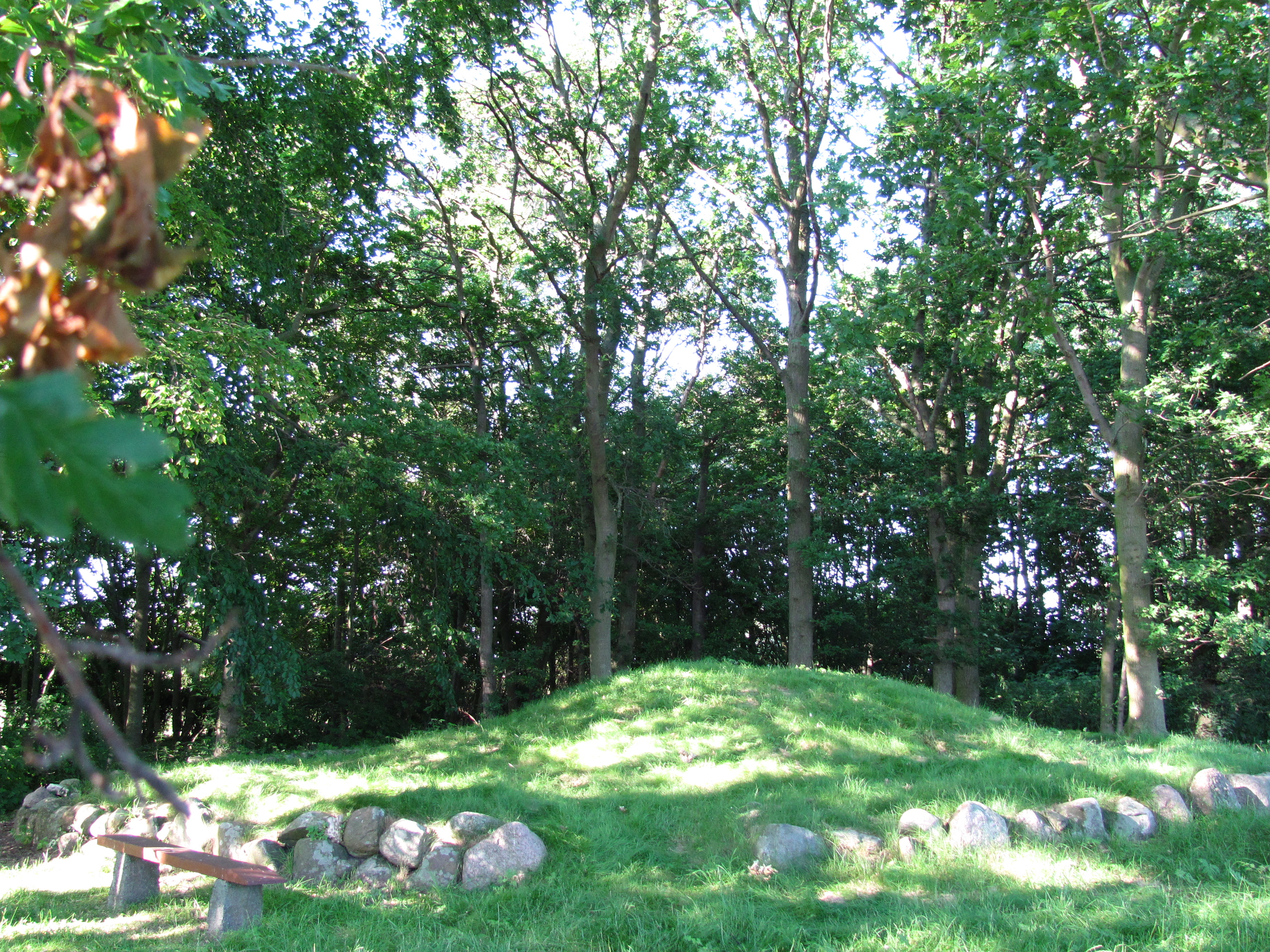 Former gallow, Petersdorf, Fehmarn